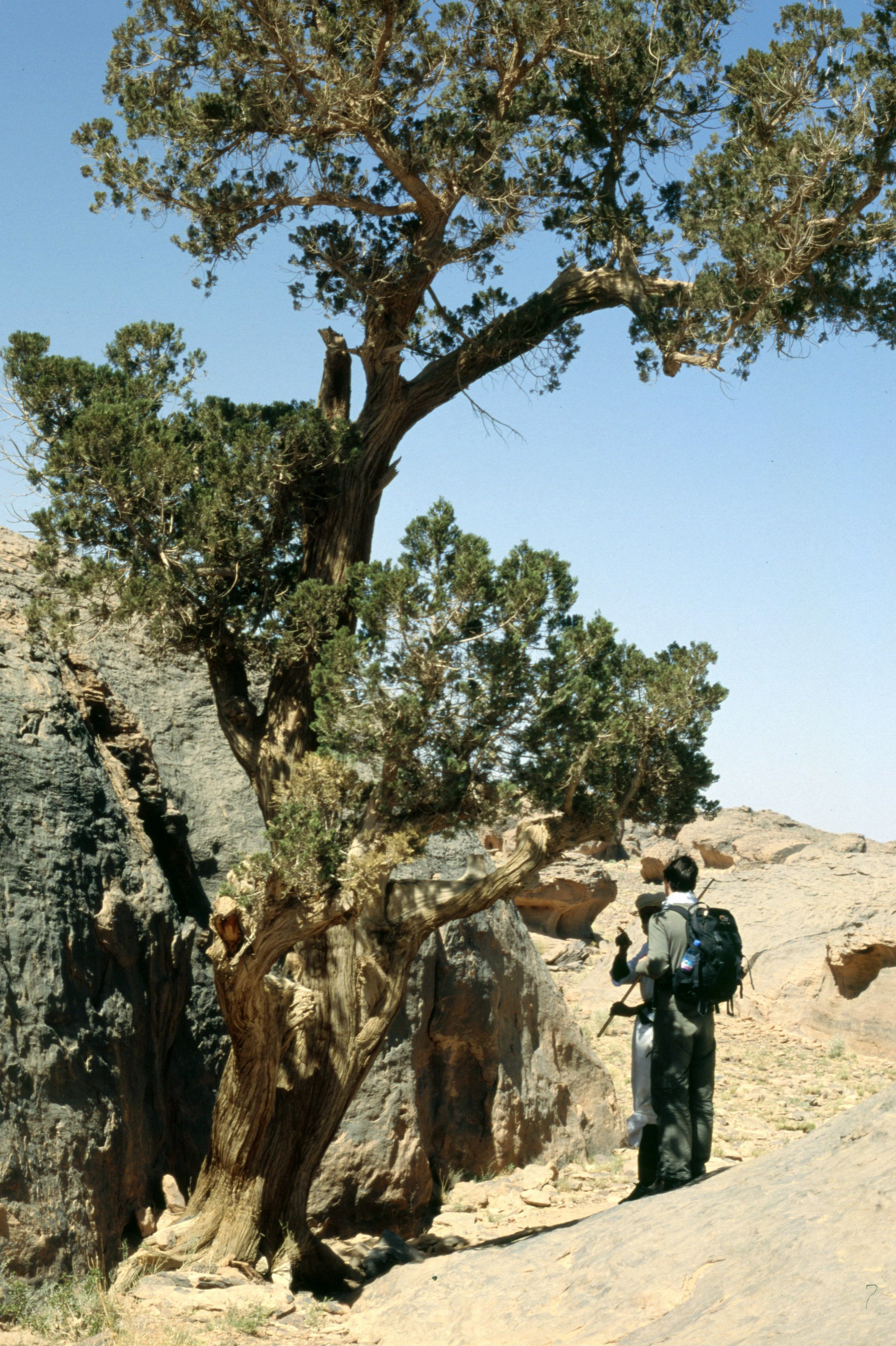 Cupressus dupreziana, Tassili n'Ajjer, Algeria, 24°33'57"N, 9°27'12"E approx 24°38'N 9°38'E, 1680 m altitude. Colour adjusted. Geolocation cited on Flickr original is inaccurate (places it at nearest town, Djanet).